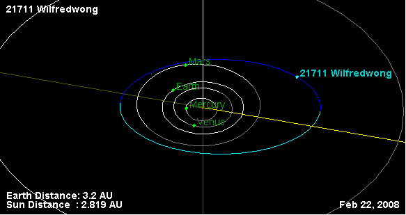 Jet Propulsion Laboratory Orbit Diagram of 21711 Wilfredwong